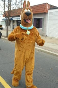 Person dressed in an unauthorized Scooby-Doo costumed character, during the Santa Parade in Hawthorne, New Jersey.